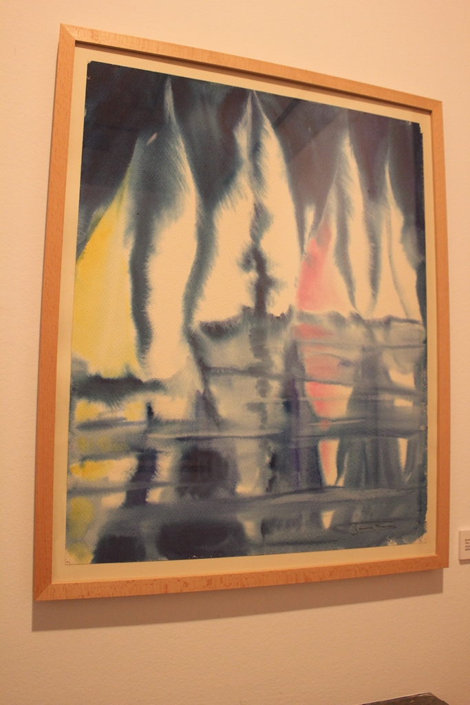 Jaume Arenas, aquarel•la sobre paper